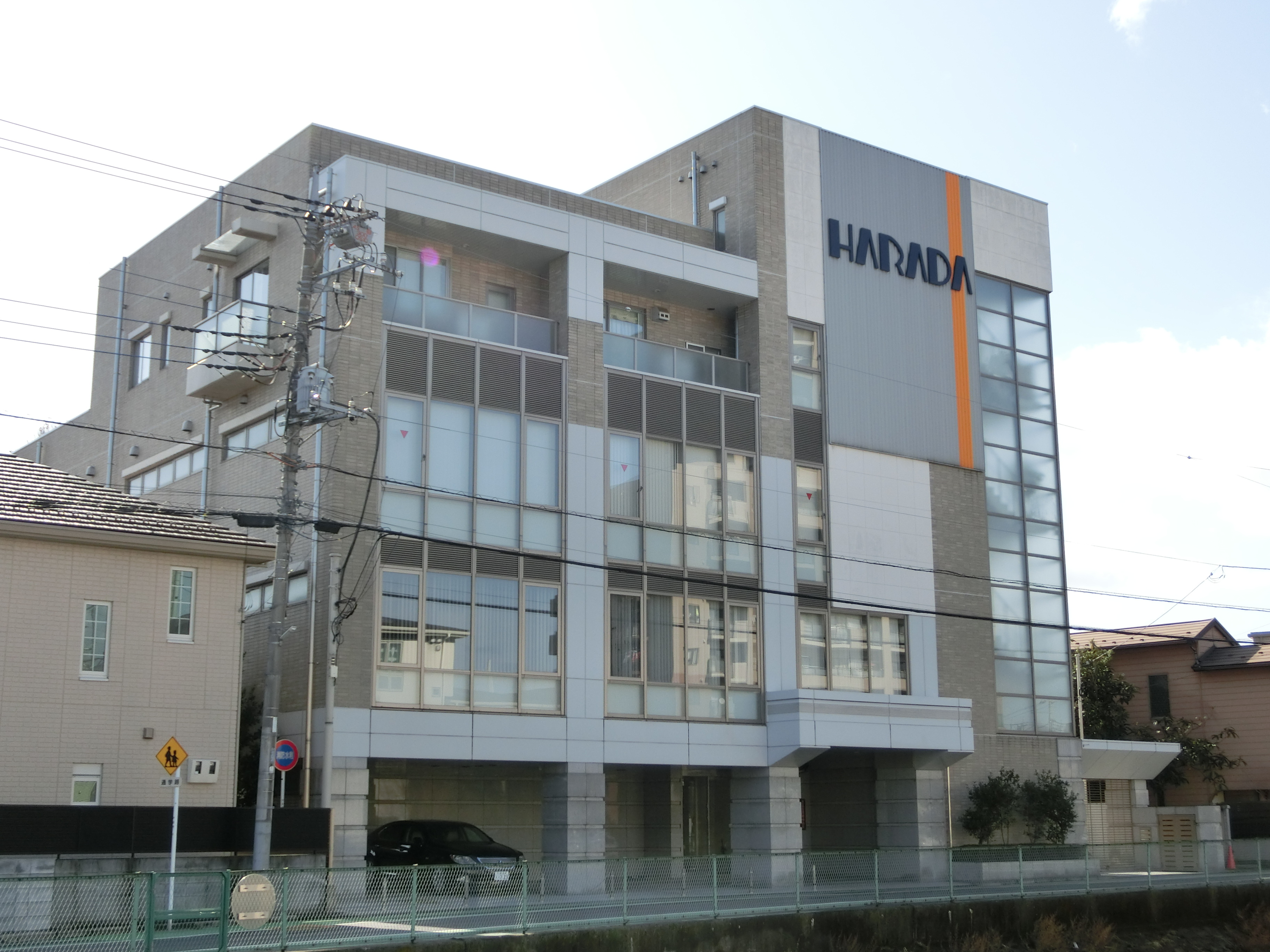 Harada Metal Industry Head Office